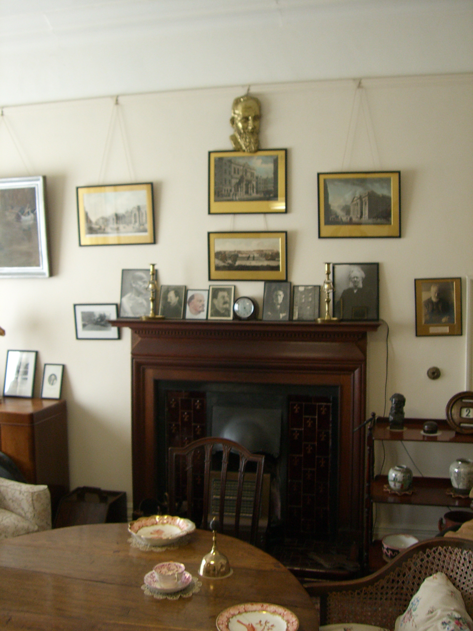 George Bernard Shaw's mantelpiece in Shaw's Corner